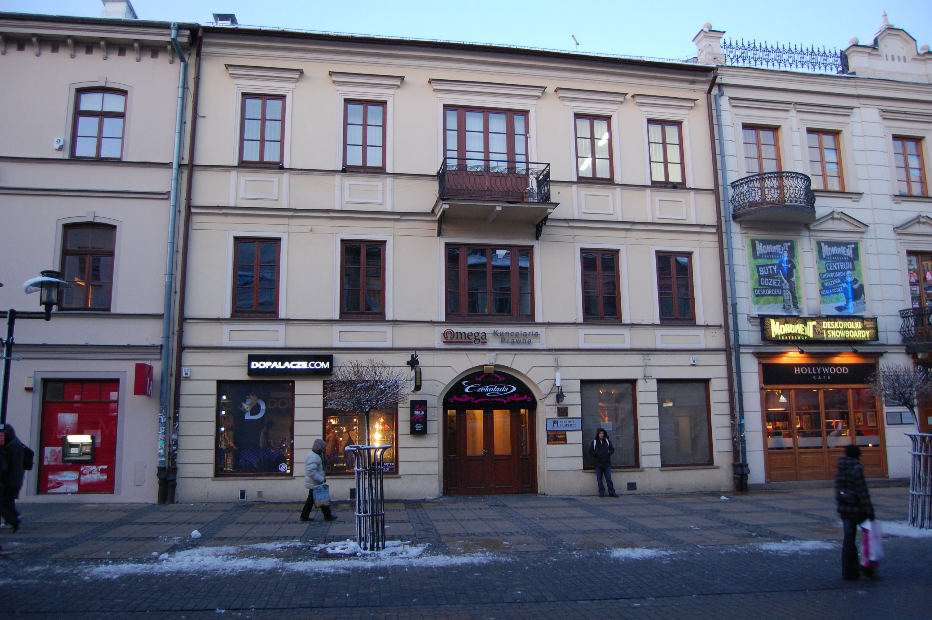 Krakowskie Przedmieście Street in Lublin